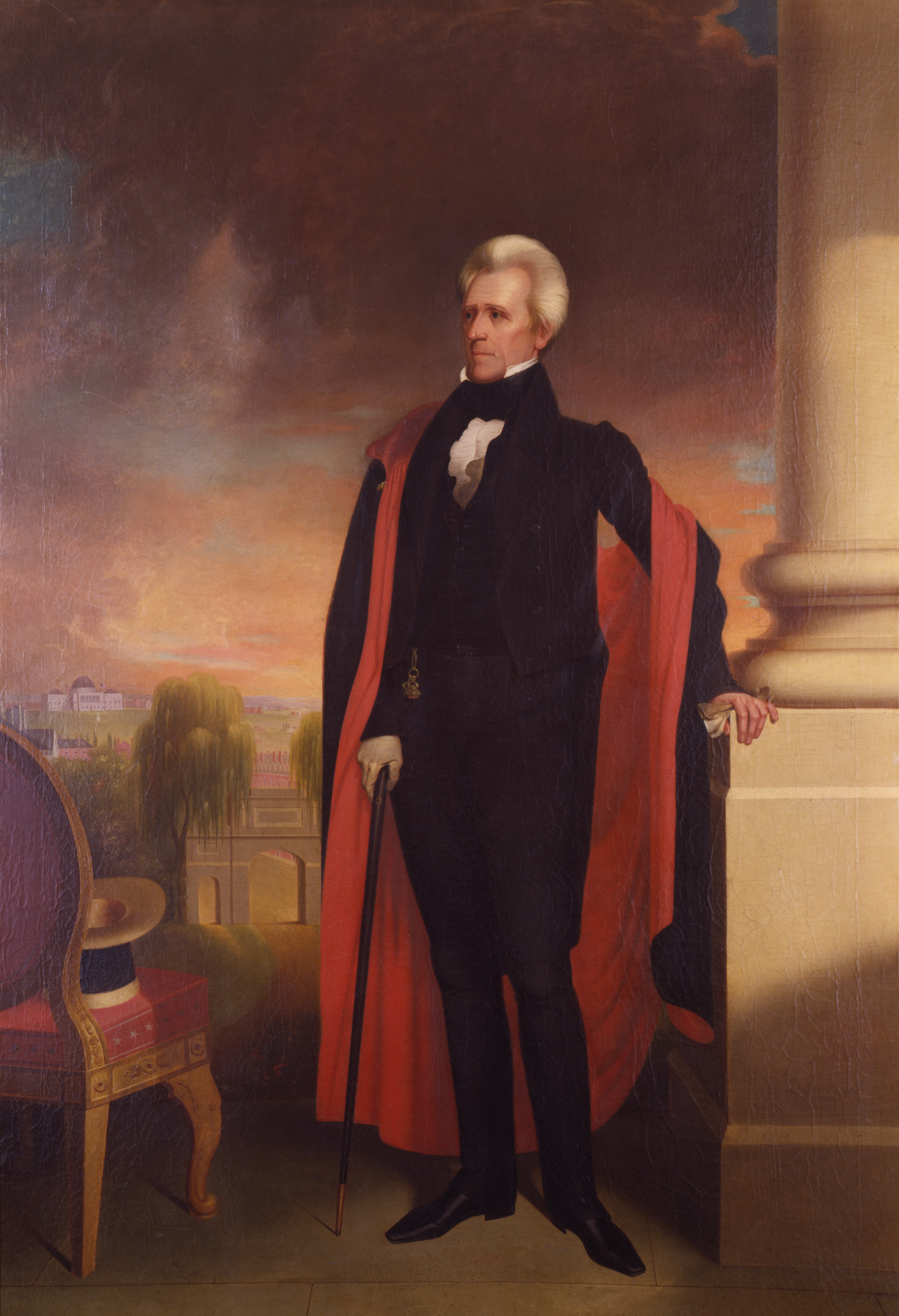 Portrait of Andrew Jackson by Category:Ralph Eleaser Whiteside Earl